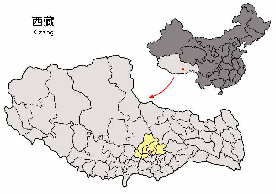 Location of Chengguan District (pink) and Lhasa prefecture (yellow) within Tibet (Xizang) autonomous region of China